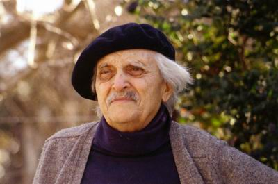 Photograph